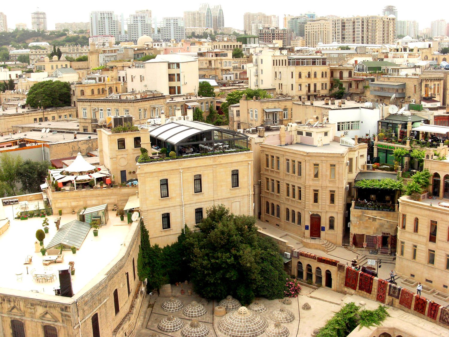 old city of baku (ichari shahar)